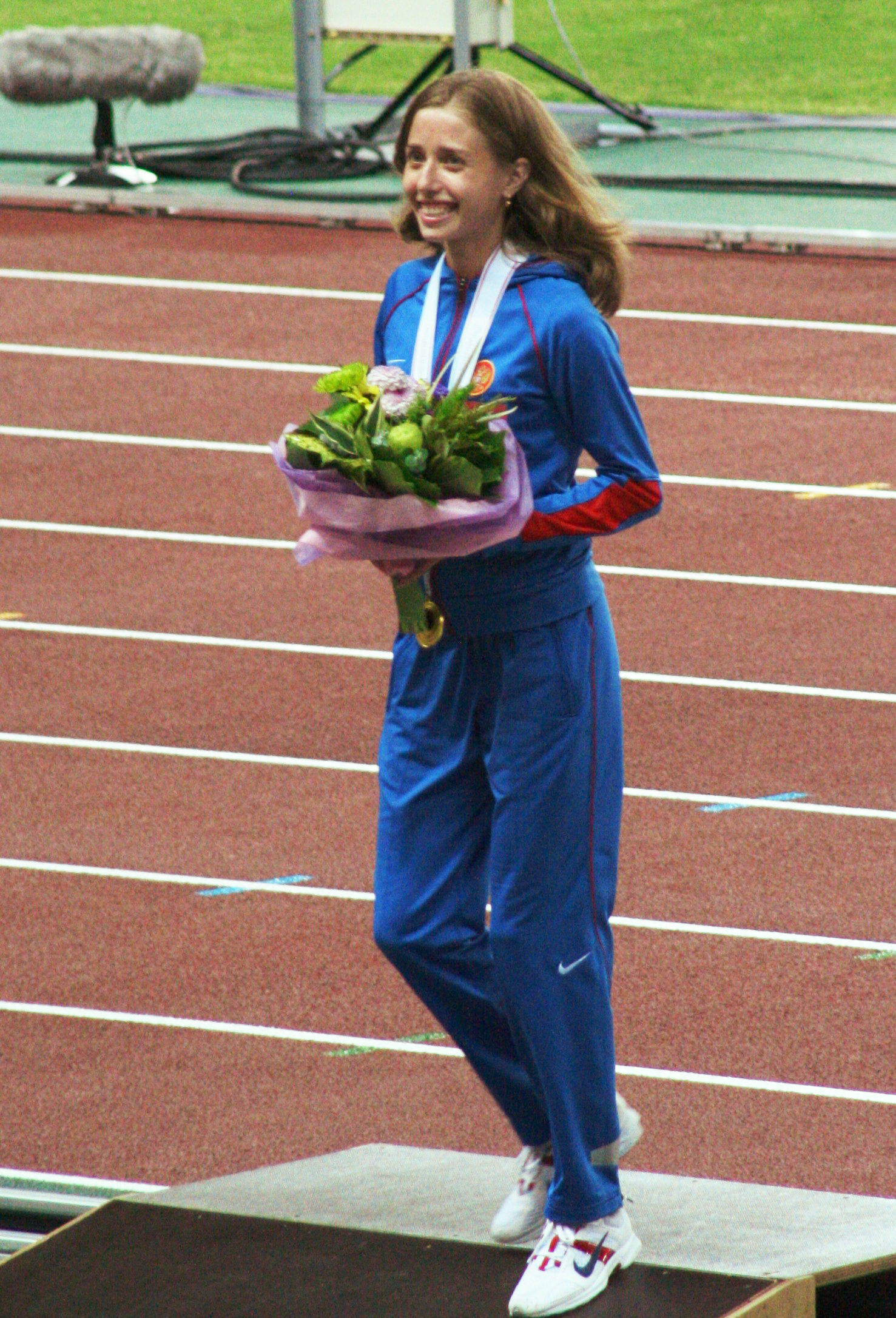 World Athletics Championships 2007 in Osaka - Russian 20 km race walk winner Olga Kaniskina after the victory ceremony